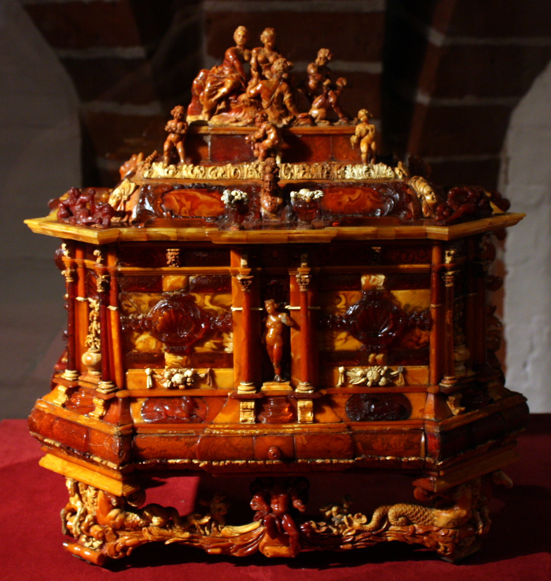 Malbork, Castle of Teutonic Order